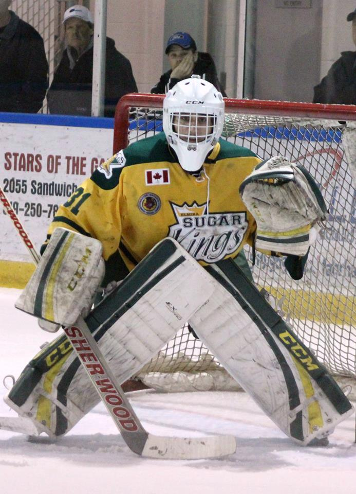 This photo was taken by Devan Mighton during the 2014-15 GOJHL season.